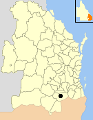 Location of the former Local Government Area in Queensland